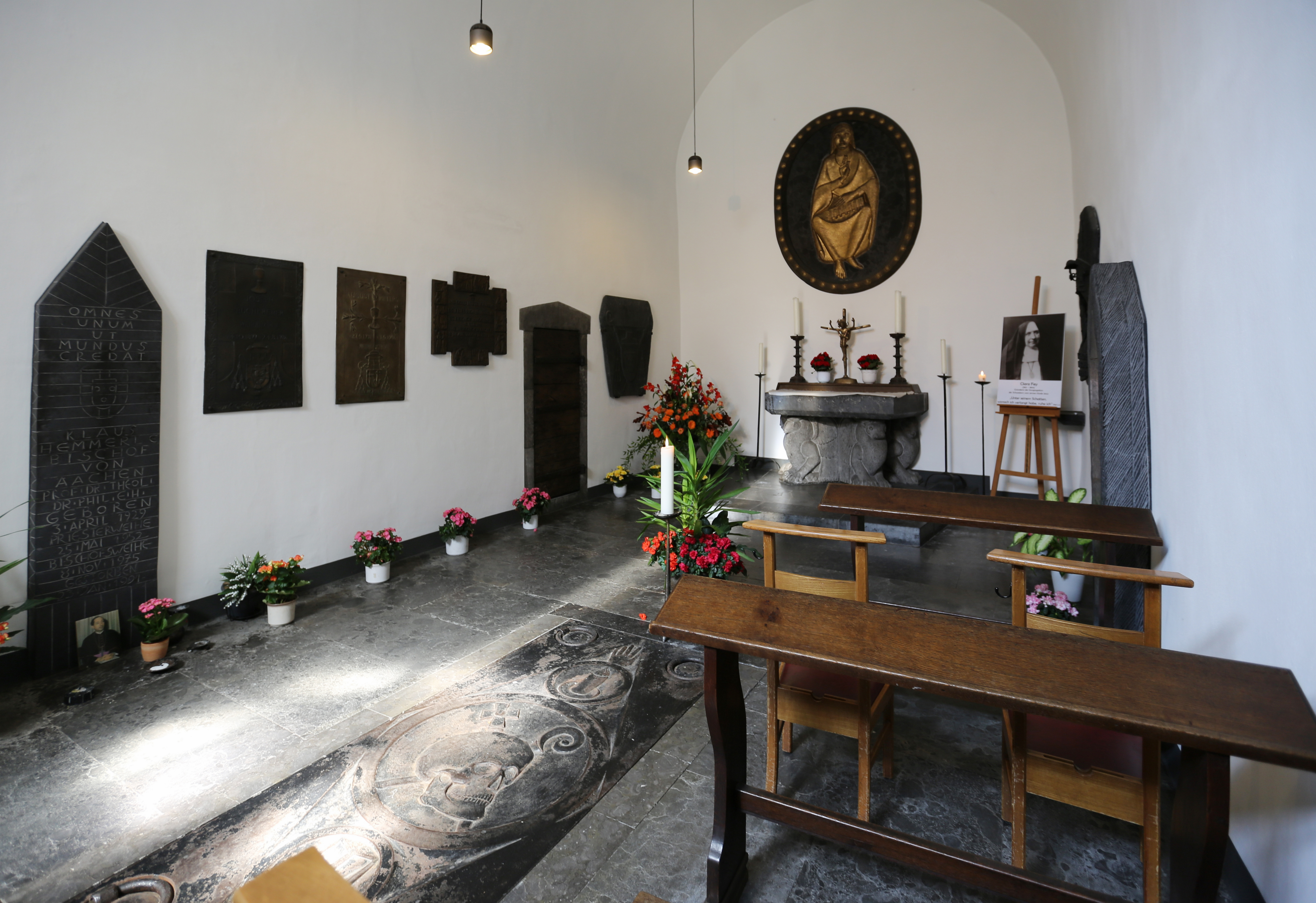 All Hallows chapel of palatine chapel in Aachen Cathedral, Germany